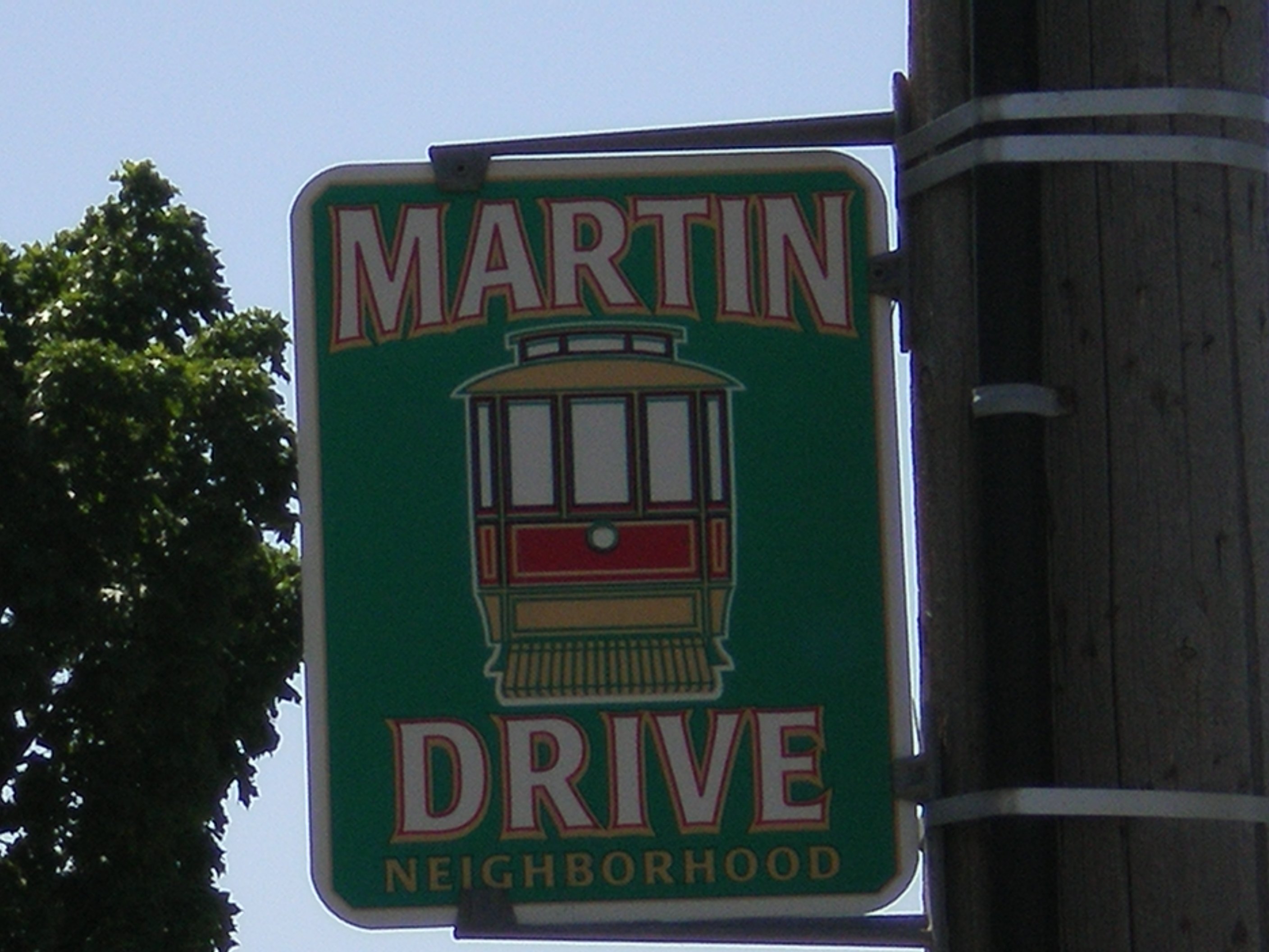 City of Milwaukee made sign, Martin Drive. Sign can be found on street light poles.